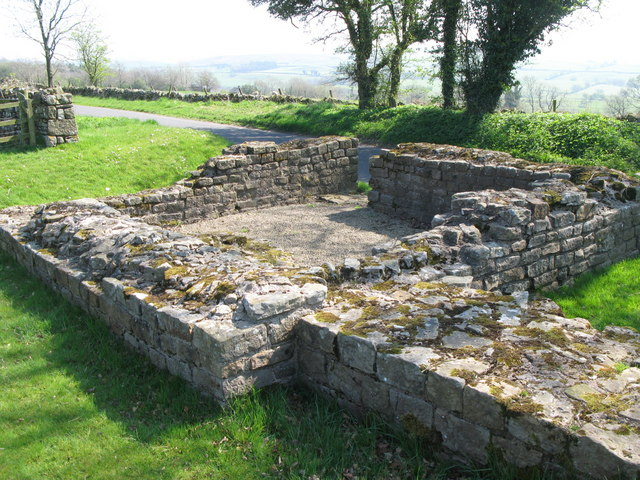 Turret 51b (Lea Hill) (2)